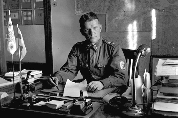 Lieutenant Colonel Aaro Pajari, later a Major General